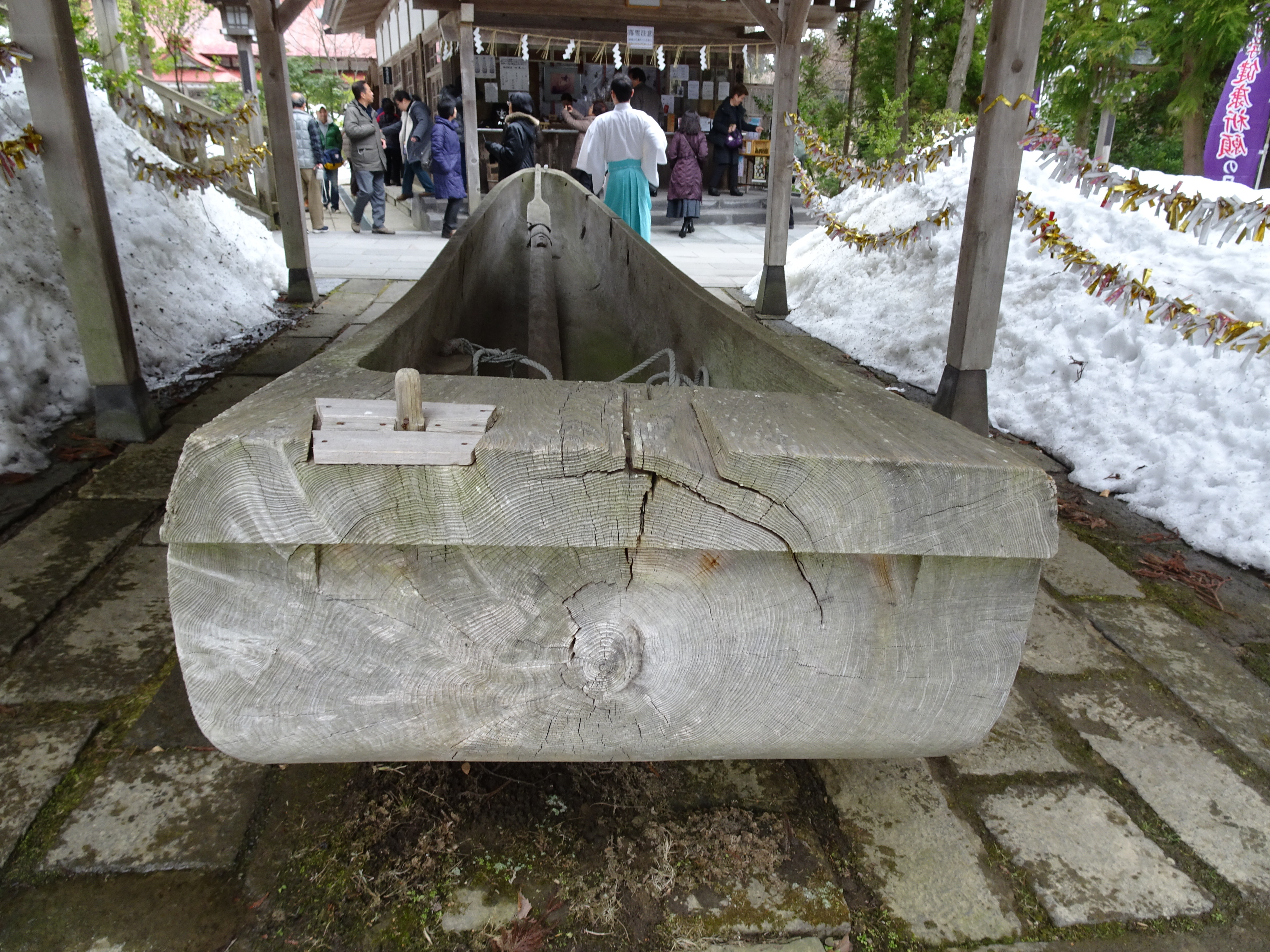 An old monoxylons dedicated to Shinzan Jinja or Shinzan Shrine in Oga City,Akita Prefecture,Japan. Its annual rings show the center of gravity of the timber which gives the boat good balance on water.